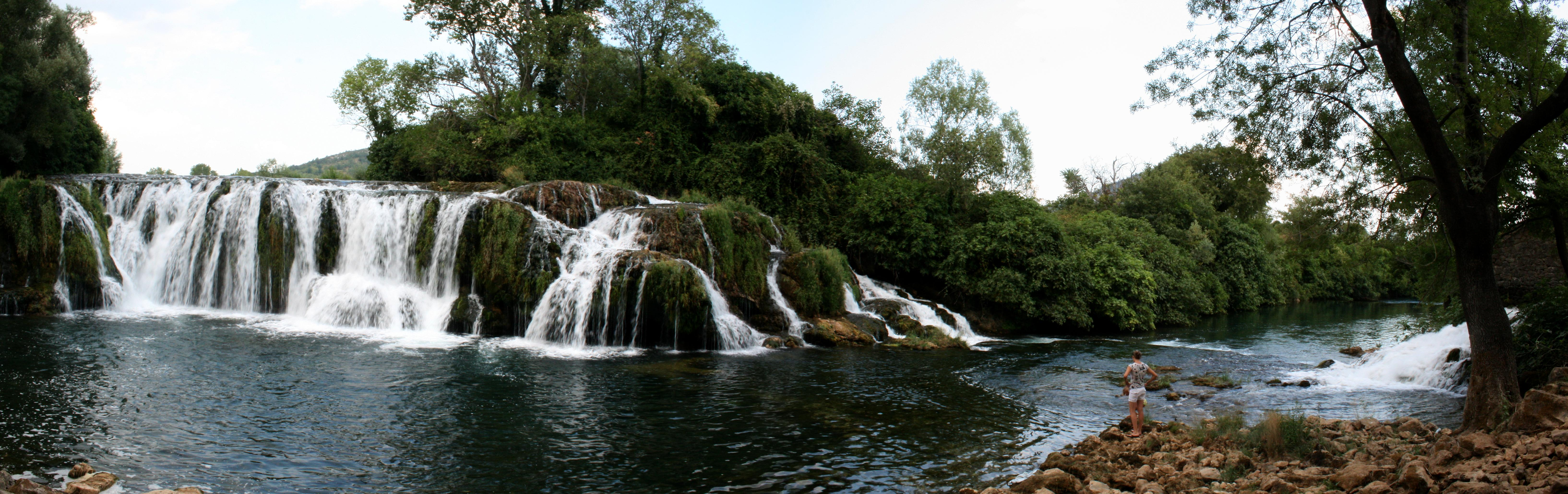 Koćuša-fall, Ljubuški, Bosnia and Herzegovina